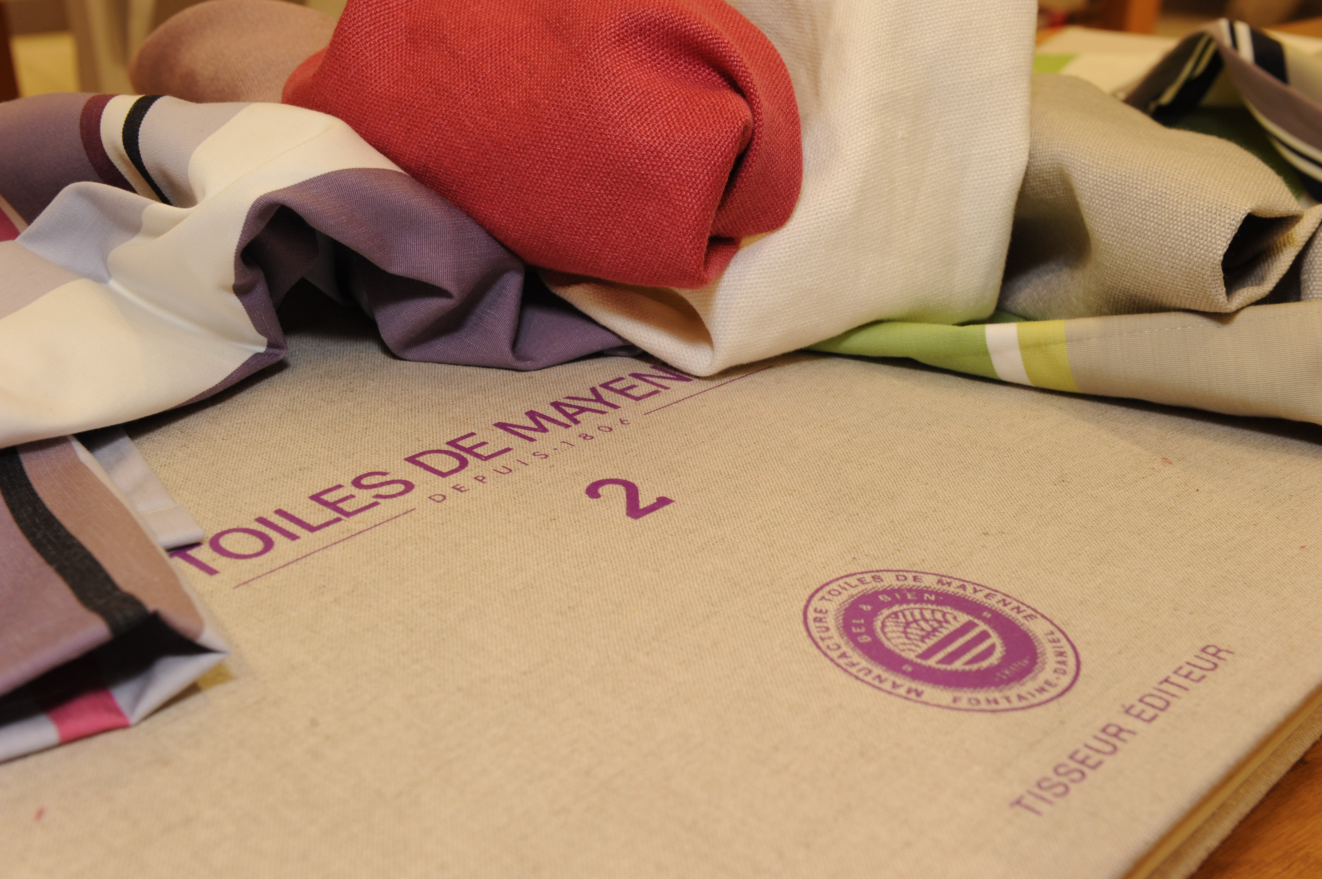 Marque Toiles de Mayenne